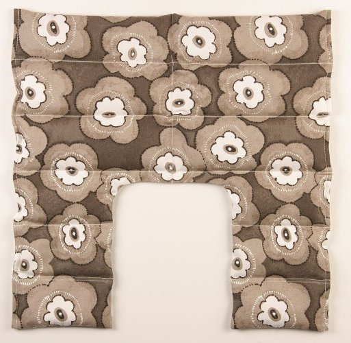 Wheat pillow.